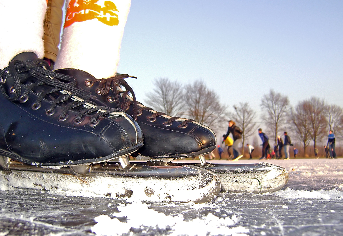 Iceskating in Zwolle, Netherlands. Winter 2008/2009. Noren.